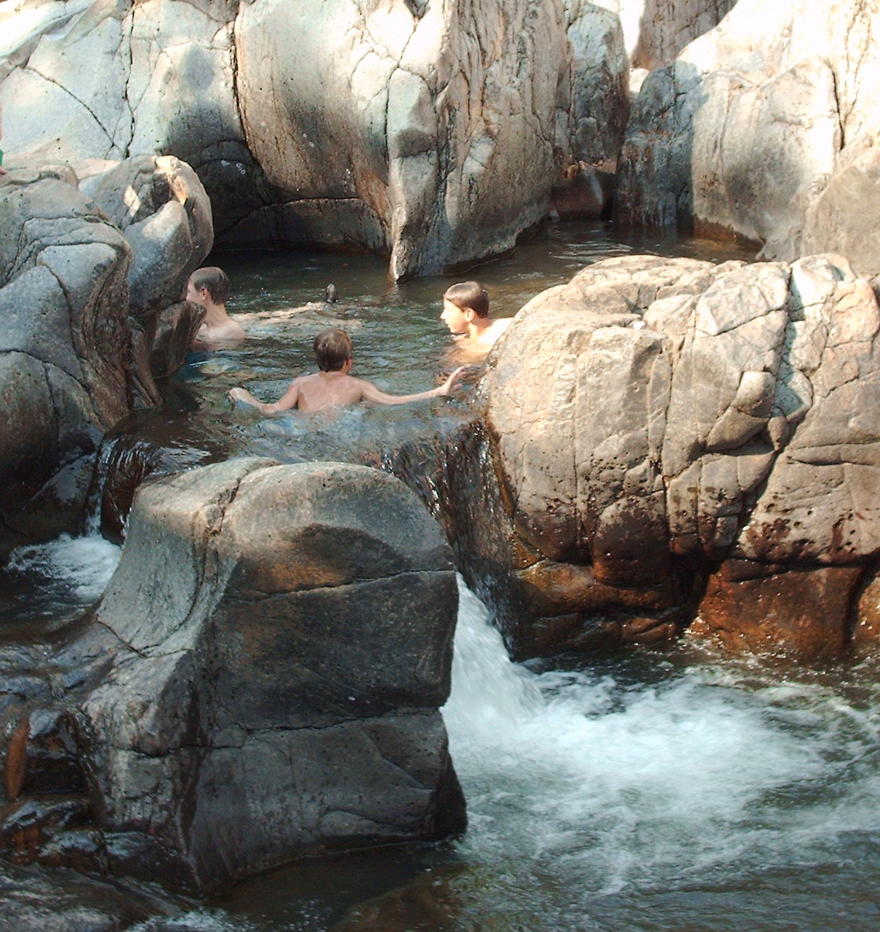 Boys at play in the shut-ins of the East Fork Black River at Johnson's Shut-ins State Park in St. Francois Mountains of the Missouri Ozarks.